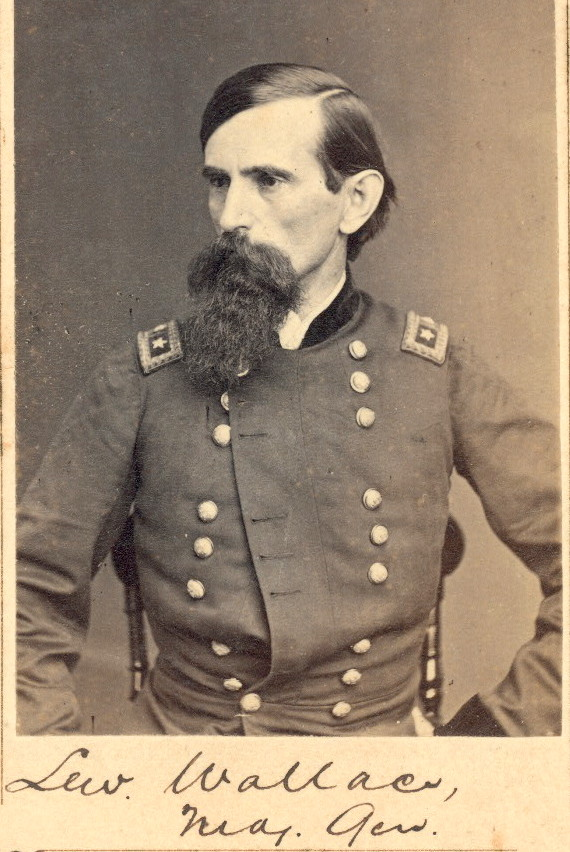 Gen. Lew Wallace from my personal collection of Civil War photographs.